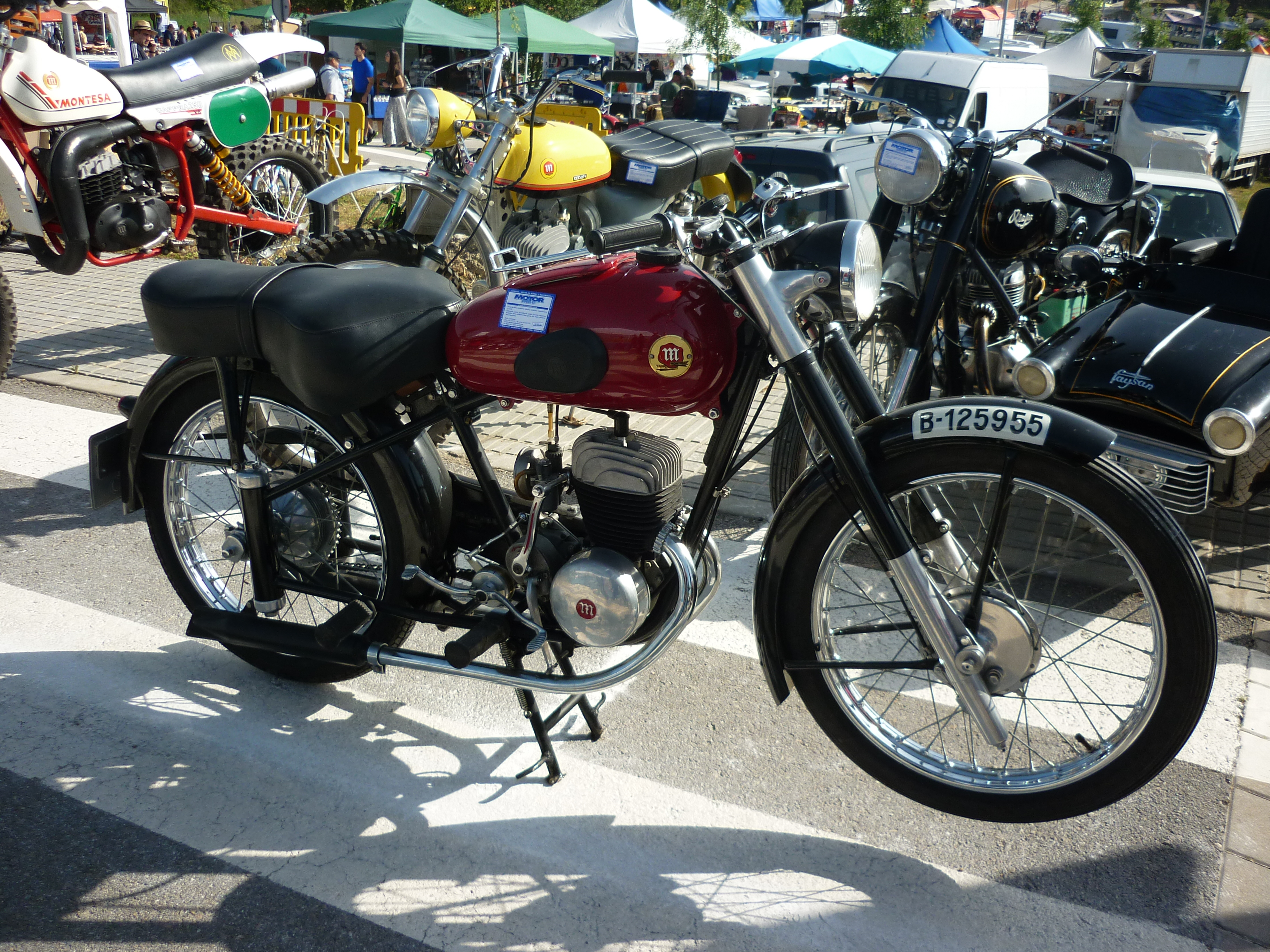 Forefront: Montesa Brio 80 "56", 1956